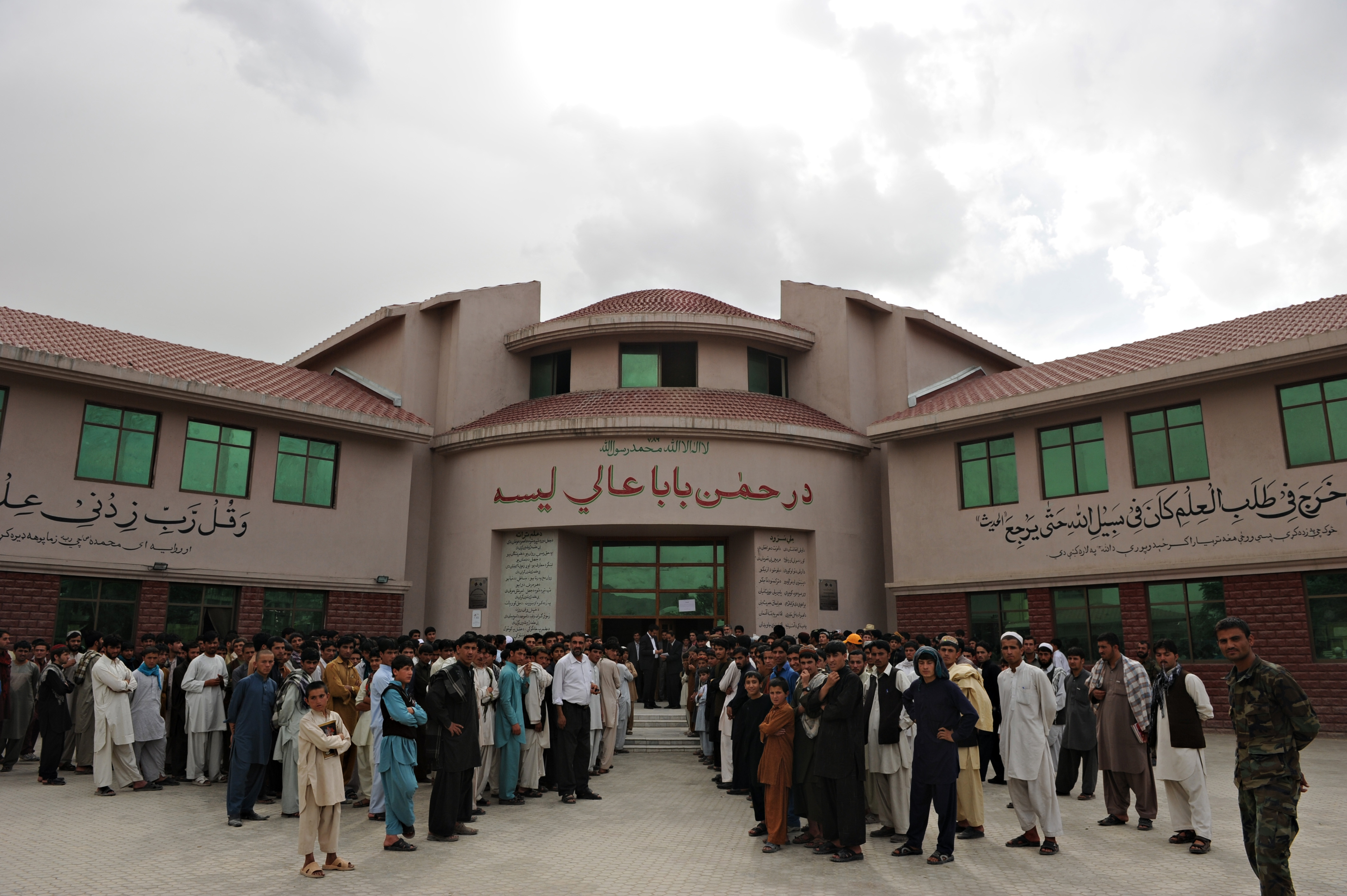 Students await the arrival of Deputy U.S. Ambassador E. Anthony Wayne for the inauguration of the Access English program at Rahman Baba High School in Kabul, Afghanistan on Saturday, June 4, 2011.